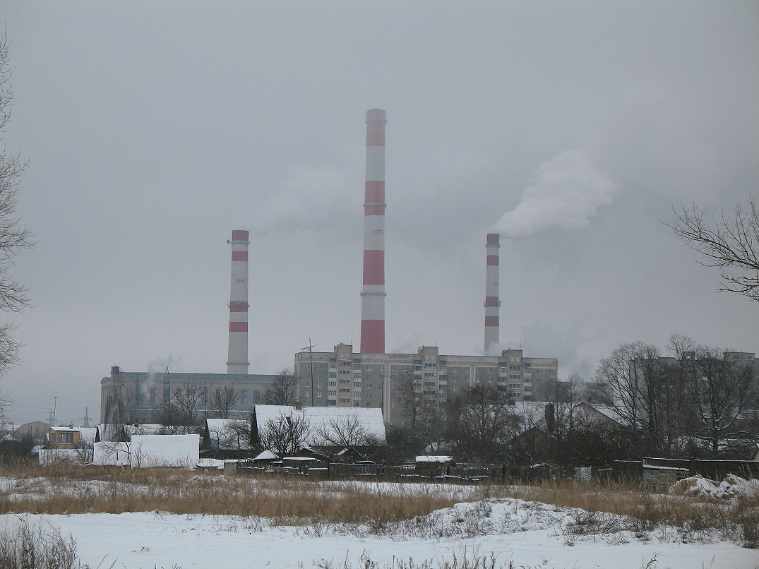 View towards industrial area of Svetlahorsk town, in Gomel oblast (province) of Belarus.